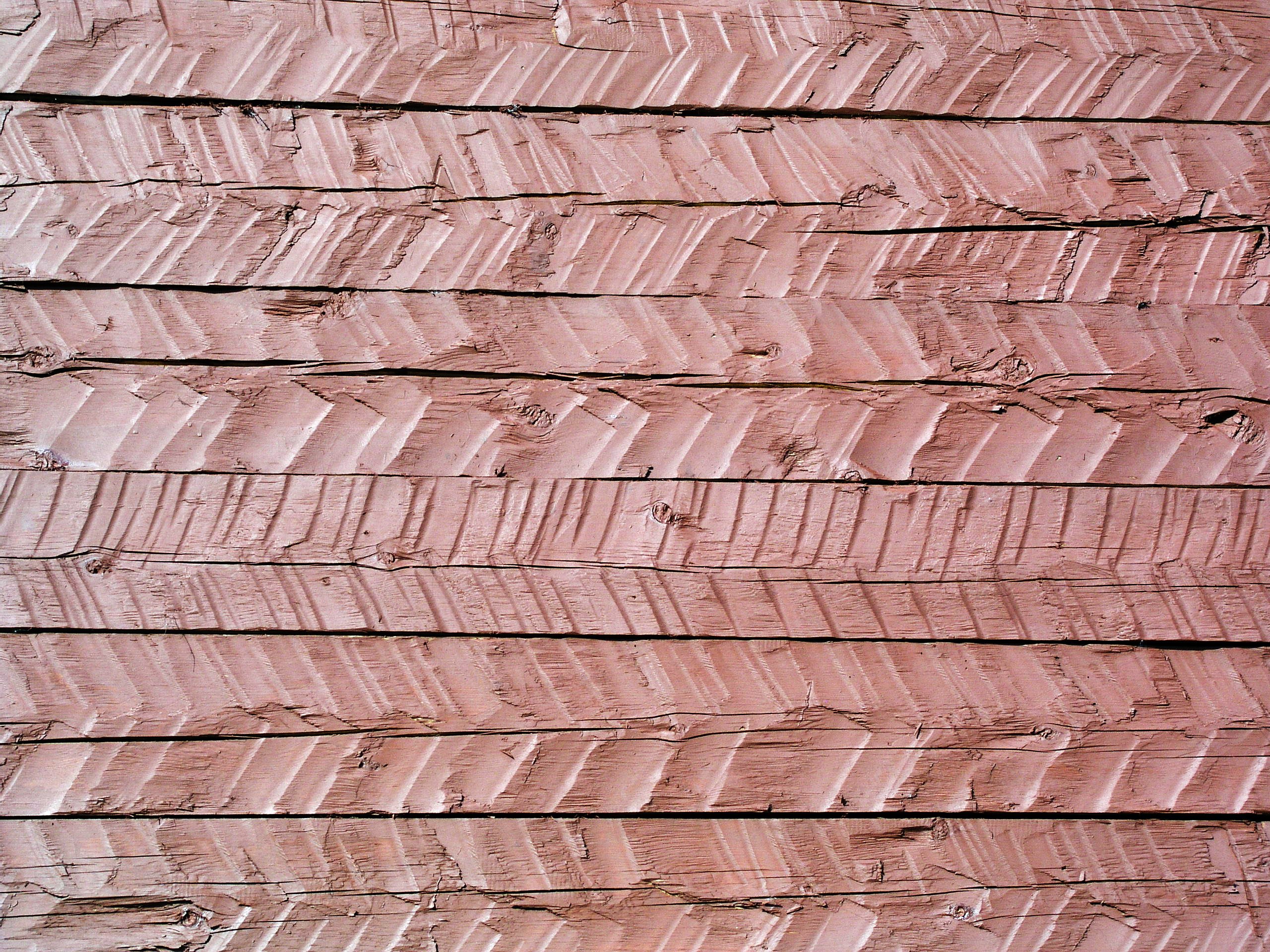 Stråsjö chapel, Bjuråkers församling, Hälsingland, Sweden. Diocese of Uppsala. Wood surface treatment.